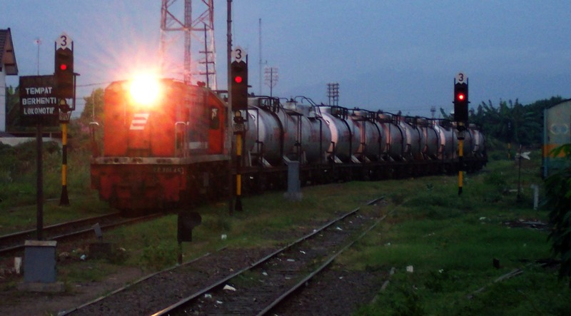 Diesel locomotive CC 201 45 from Indonesia